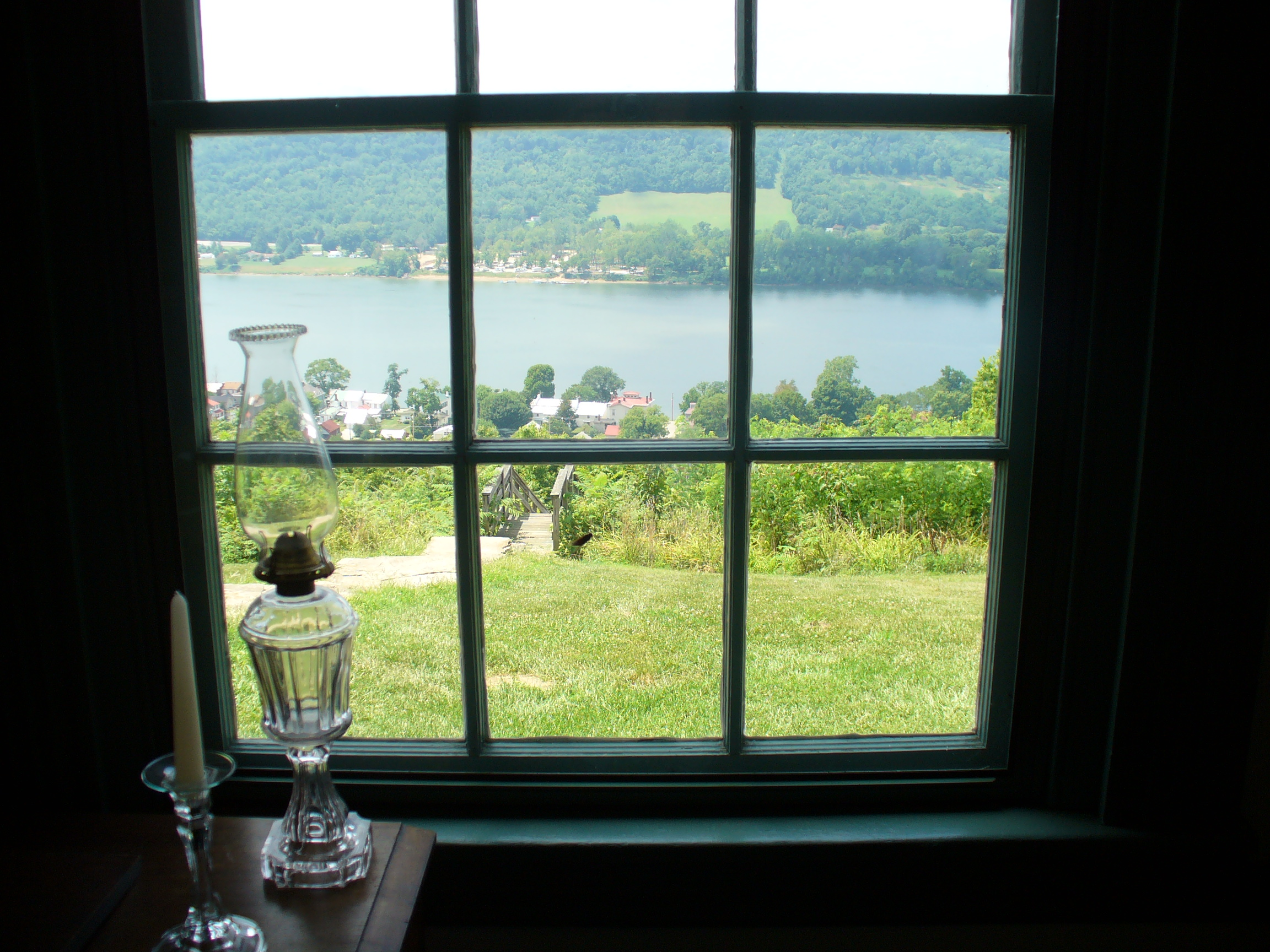 Taken by me.